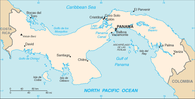 Map of Panama, showing major cities.